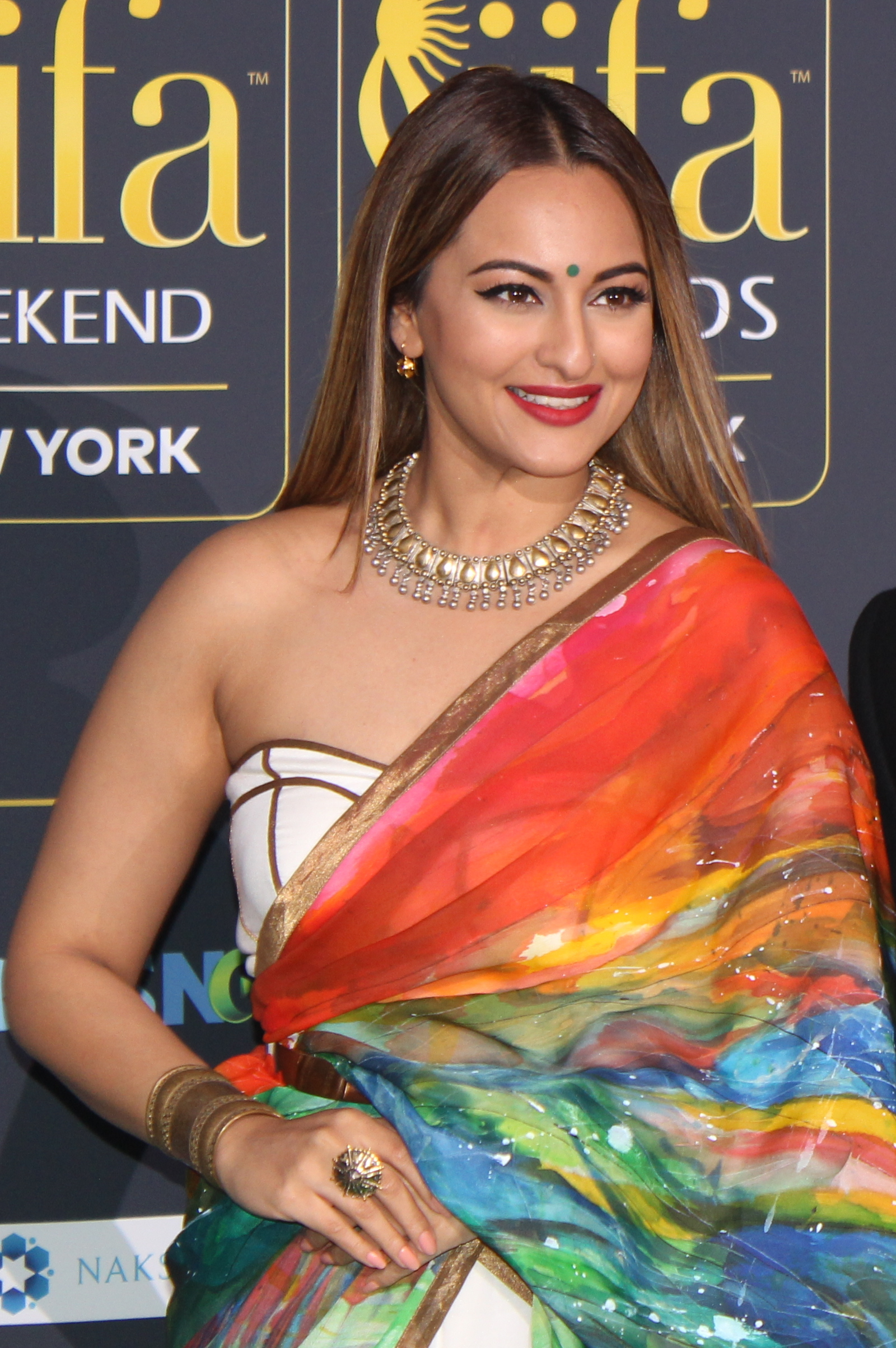 Sonakshi Sinha at the International Indian Film Academy Awards Green Carpet (MetLife Stadium) in East Rutherford, New Jersey.